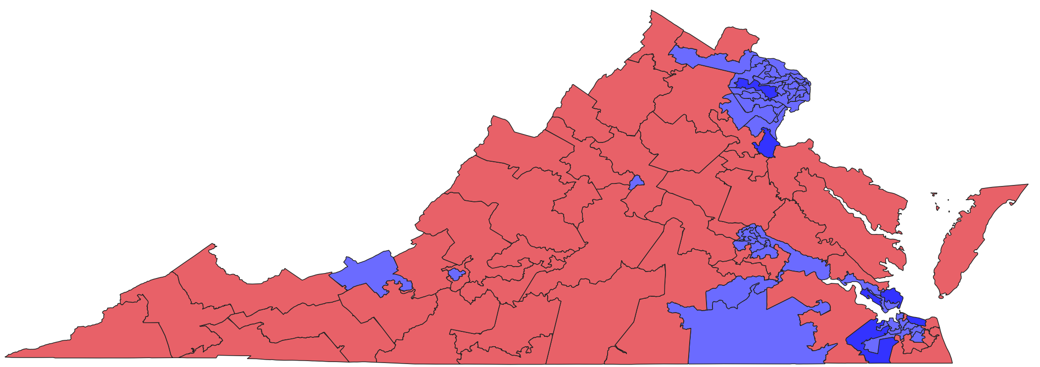 2019 Virginia State House Elections, by district